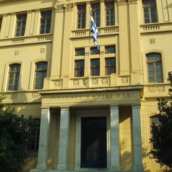 The entrance of the Philosophical Department at the Aristotle University of Thessaloniki. The Faculty of Philosophy, the earliest building of Aristotle University, founded in 1925. The University's motto is engraved on the entrance.